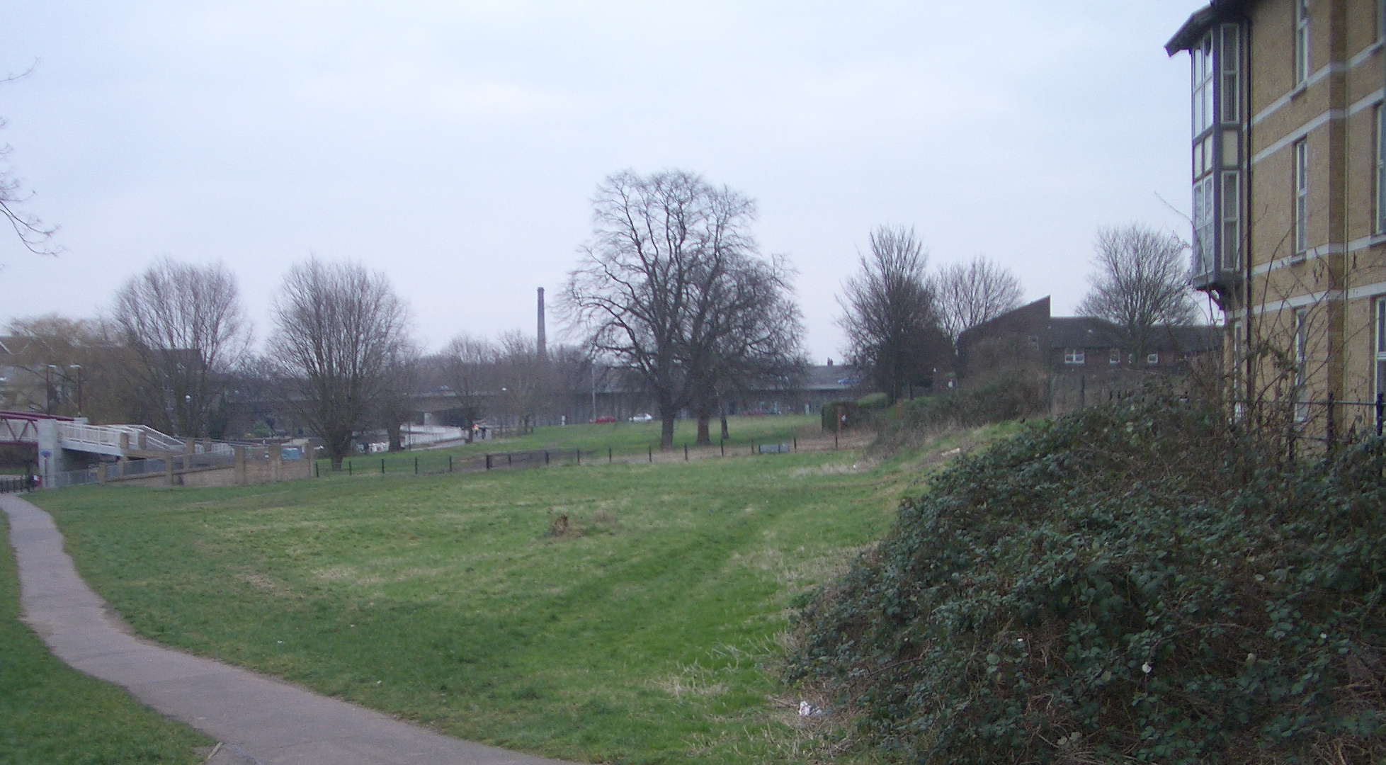 Area of Midsummer common designated as a dispersal zone under the Anti-Social Behaviour Act 2003 from January 2007 to July 2007.